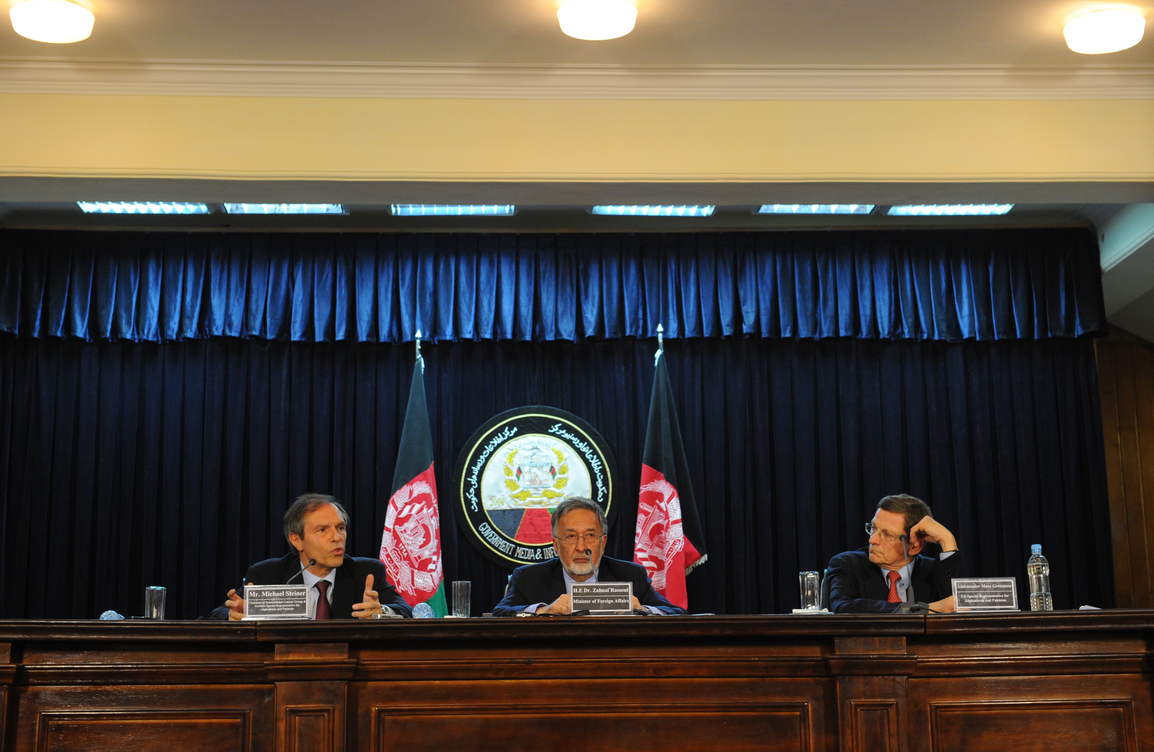 German Special Representative for Afghanistan and Pakistan Michael Steiner, Foreign Minister Zalmai Rassoul and U.S. Special Representative to Afghanistan and Pakistan Marc Grossman participate in an International Contact Group press conference at the Government Media Information Center in Kabul, Afghanistan.